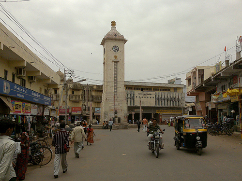 This picture is of Tower circle in Khambhat City!